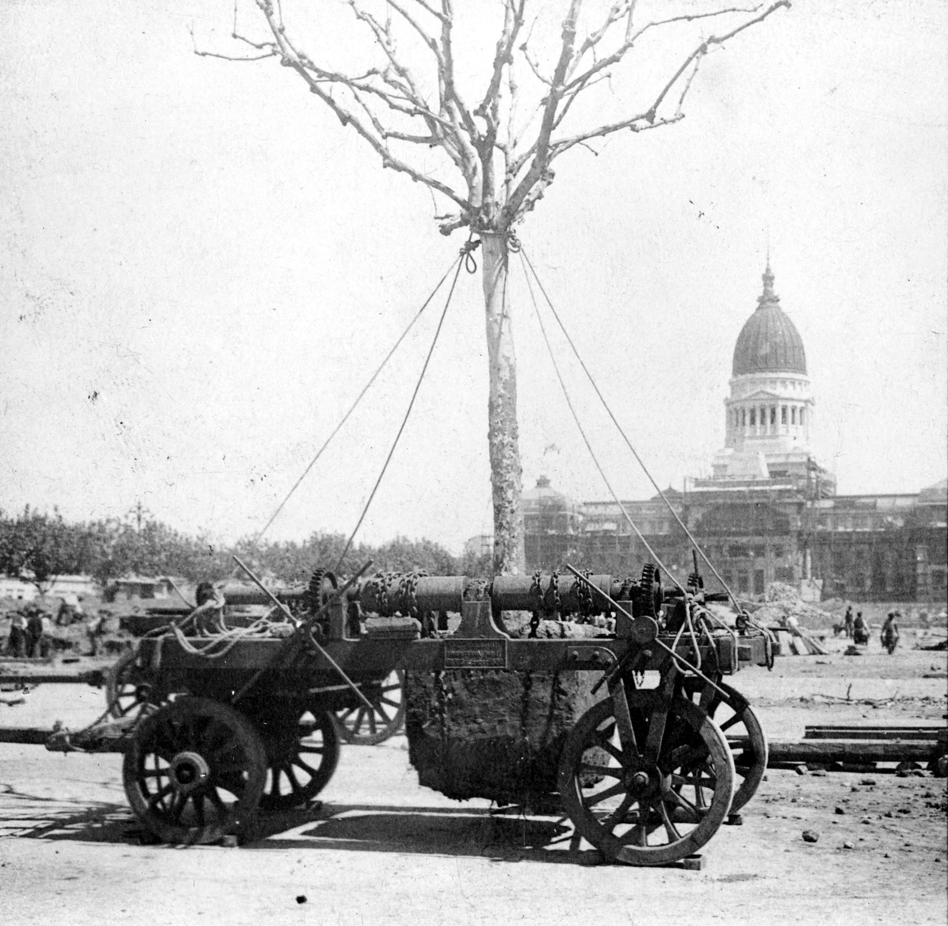 The Congressional Plaza of Buenos Aires under construction. It was designed by Carlos Thays.